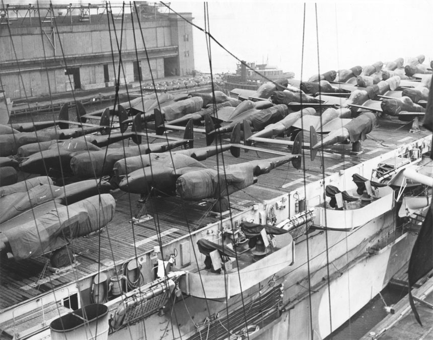 Description: P-38s deck-loaded on CVE. Plane shipment ready to go. Planes, hooded against salt water, rest on the deck of a baby flat-top berthed at the New York Port of Embarkation. Besides waging successful war against U-boats, baby flats have transported hundreds of planes overseas.